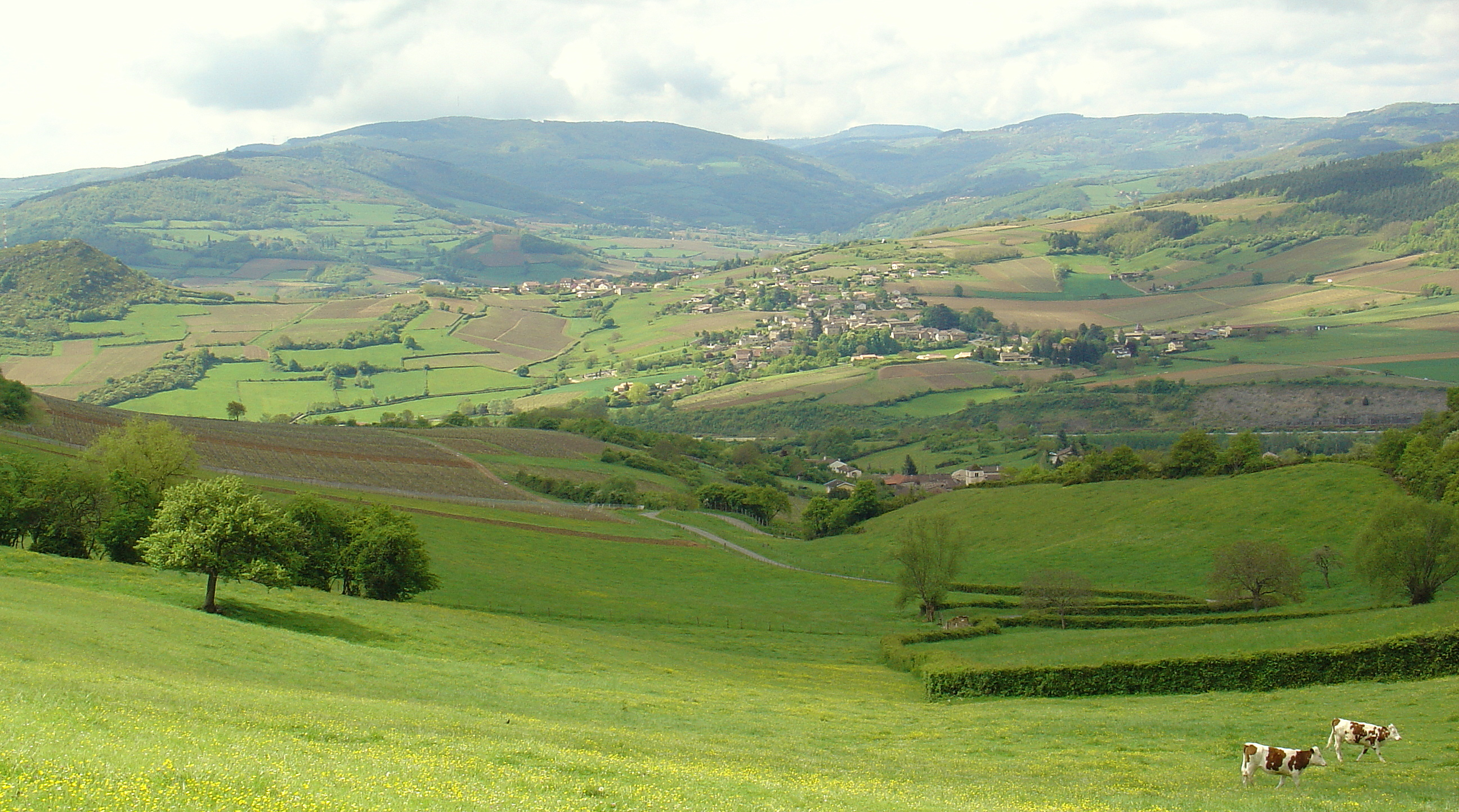 Sologny, Saône et Loire (71) - France. Picture from the hamlet Les Bruyères in Berzé-la-Ville